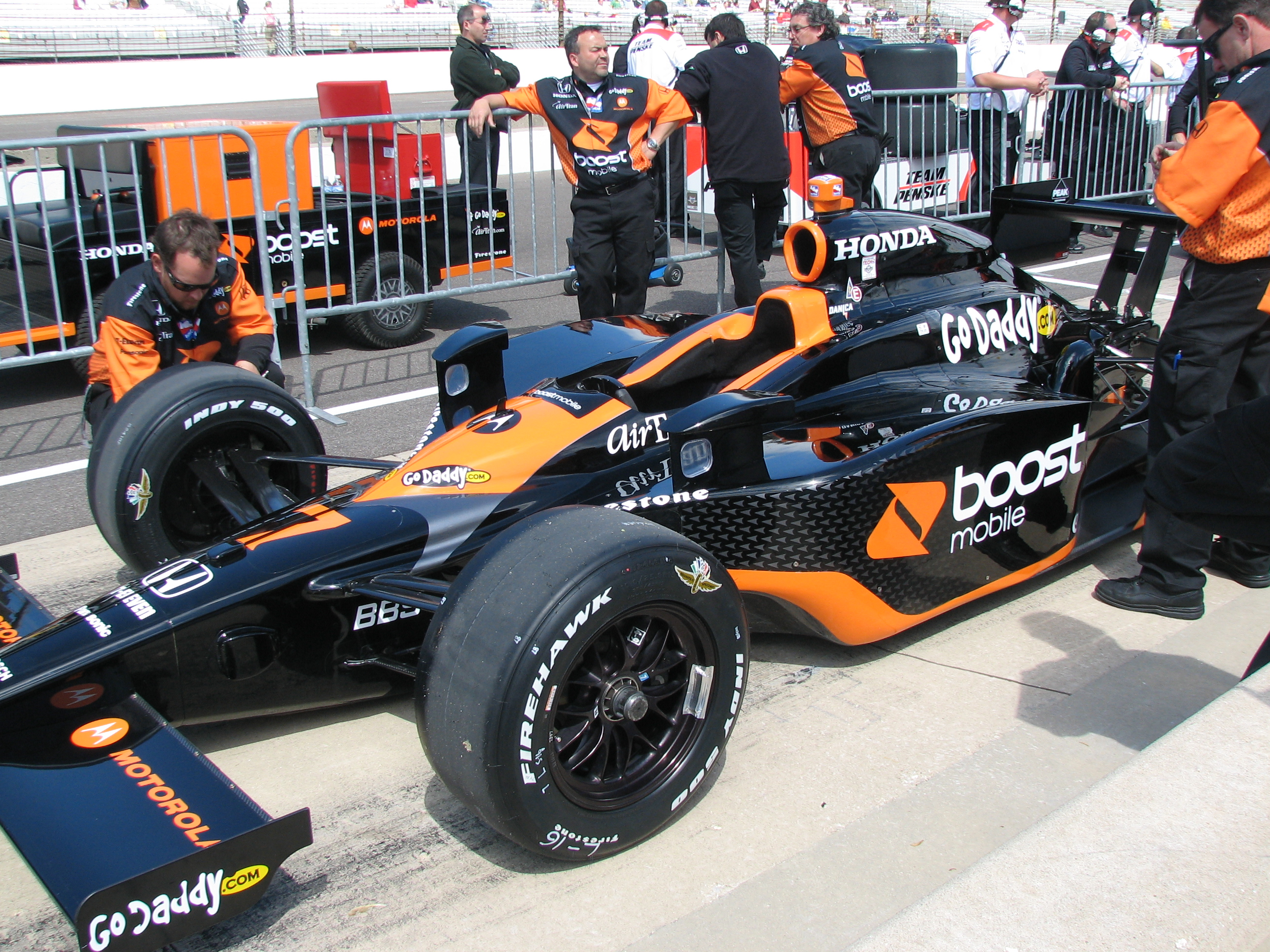 Danica Patrick's car at the Indianapolis Motor Speedway for Pole day for the 2010 Indianapolis 500 on Saturday, May 9, 2009.